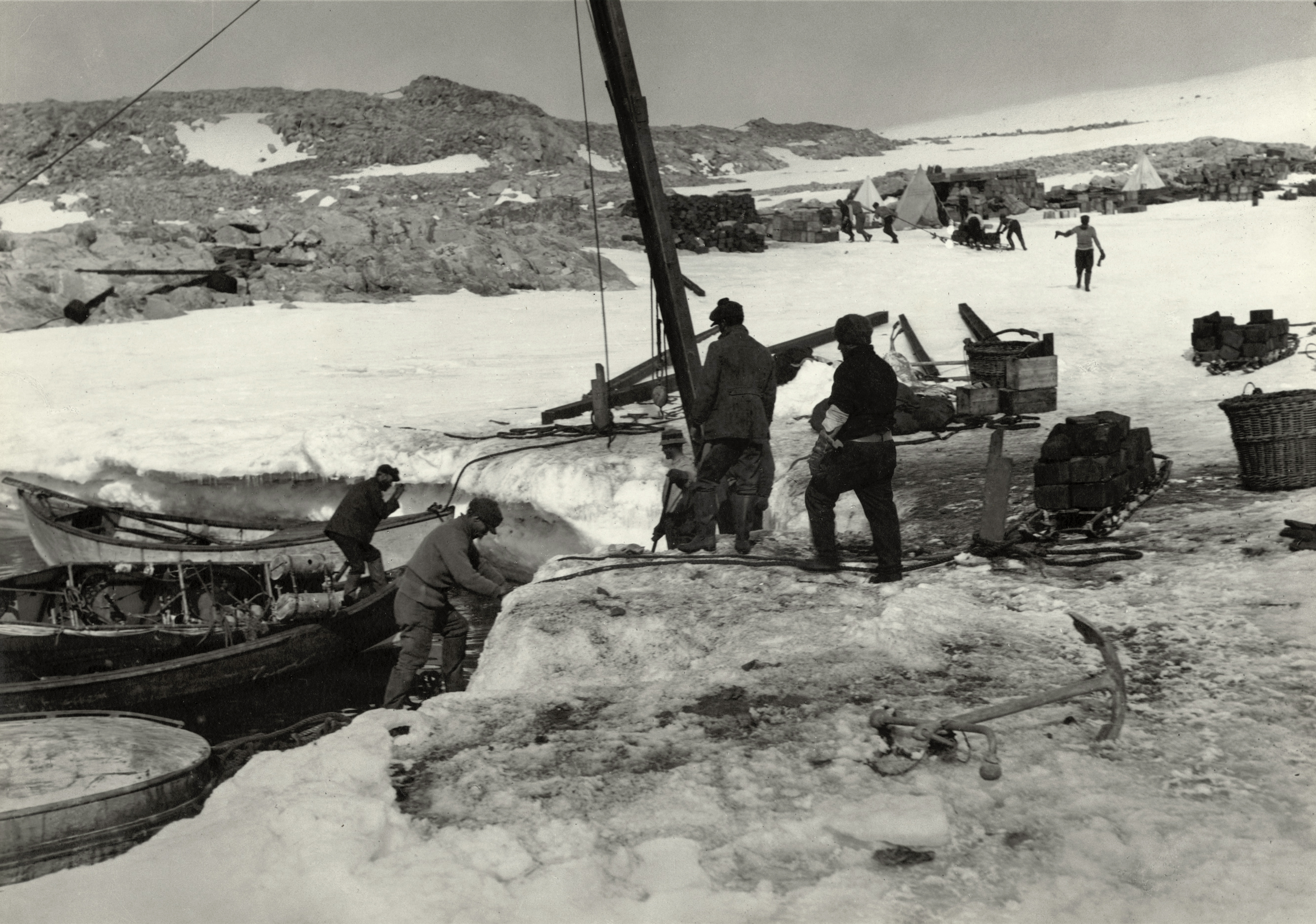 The photoprints are reproduced in: `Geographical narrative and cartography' by Douglas Mawson in Scientific reports. Series A, v. 1. / Australasian Antarctic Expedition, 1911-1914. Location number: Q508.998/A Mitchell Library Photographers include Correll, Hurley, Mawson, McLean, Mertz, Moyes, Watson and Wild Format: Photograph Find more detailed information about this photographic collection: .au/item/itemDetailPaged.aspx?itemID=17493 From the collection of the State Library of New South Wales